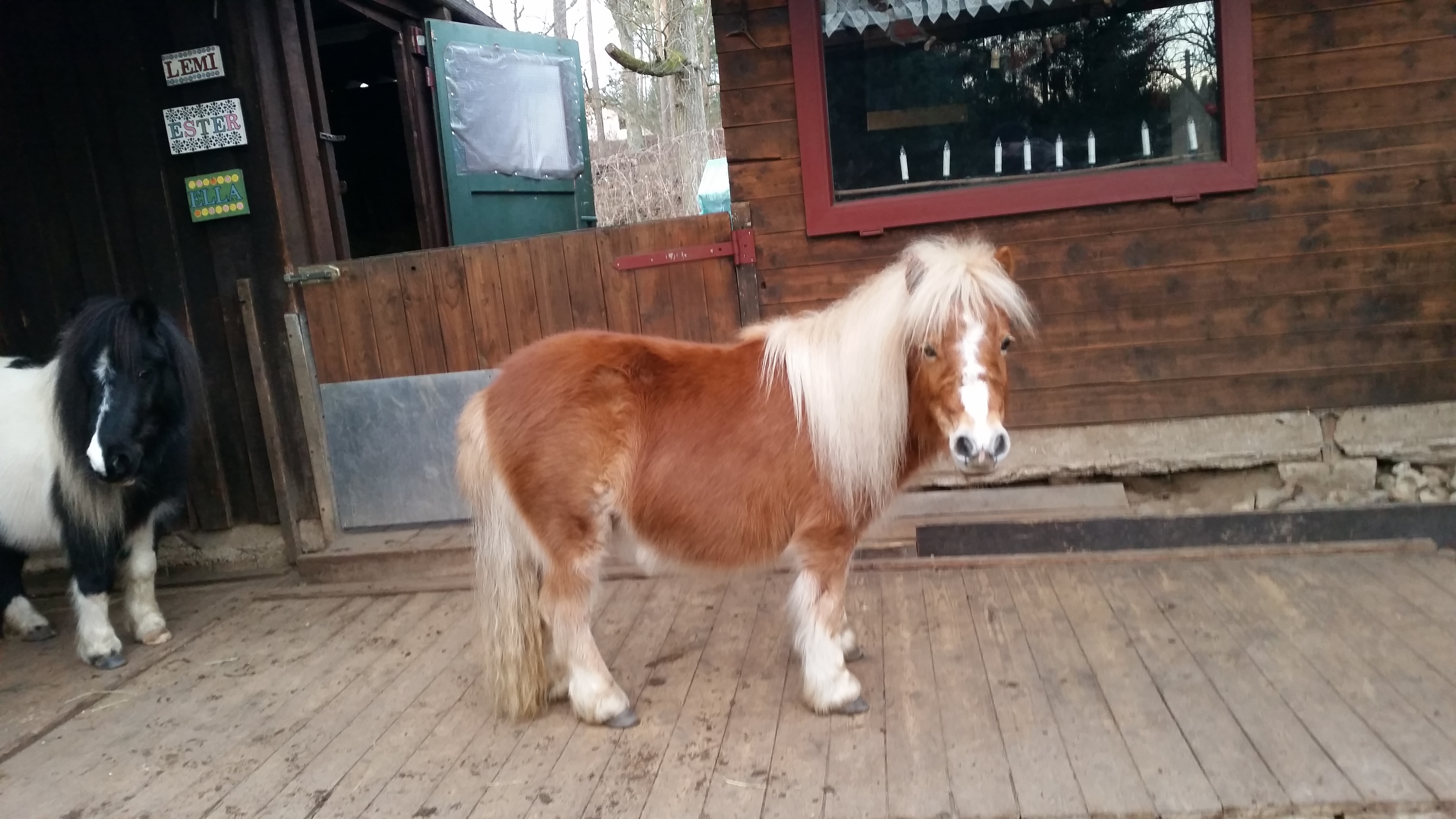 One year old Shetland pony foal standing in his stable